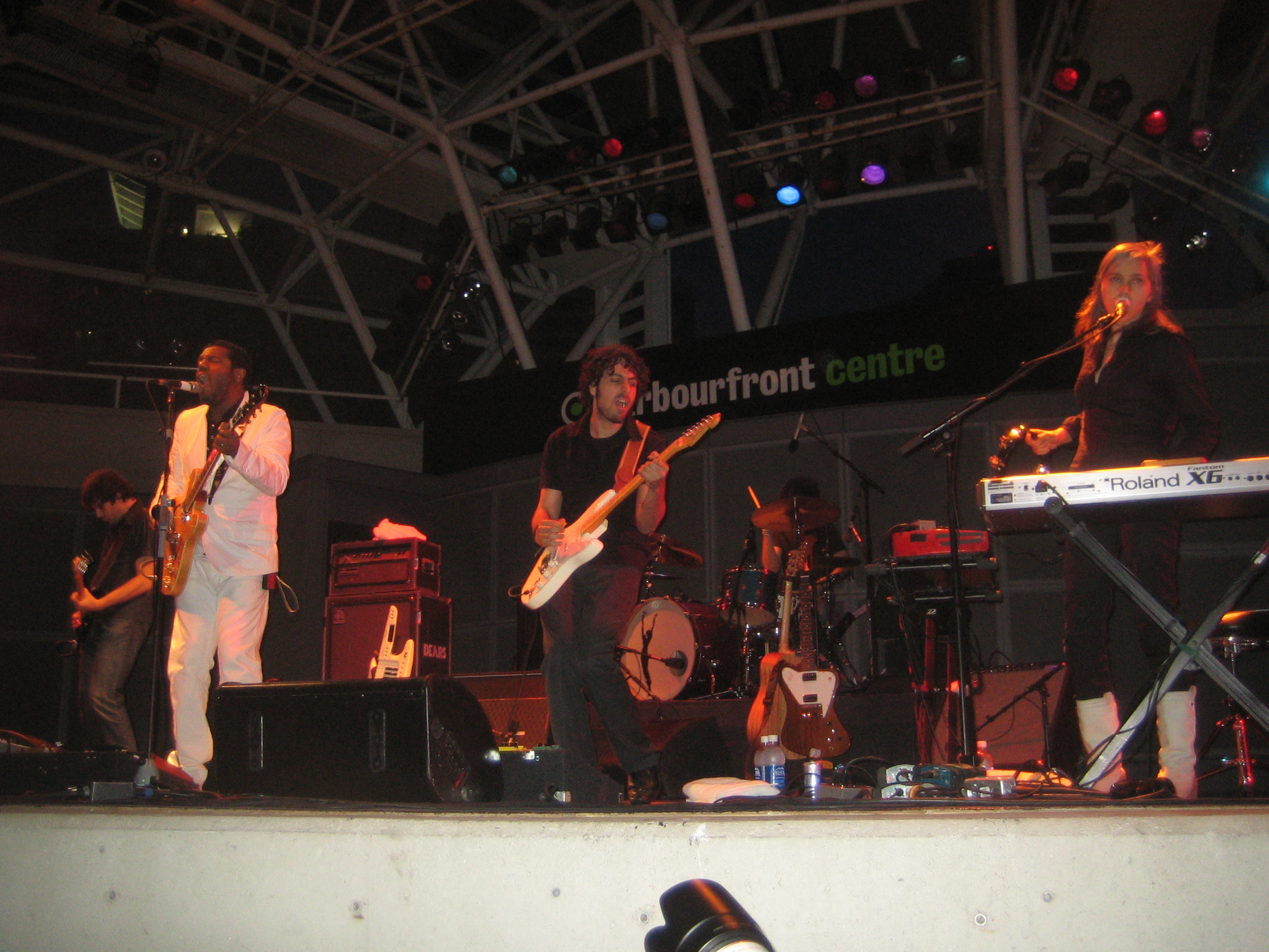 Picture of Canadian rock band The Dears performing a free concert at the Harbourfront Centre in Toronto, Canada on Canada Day.